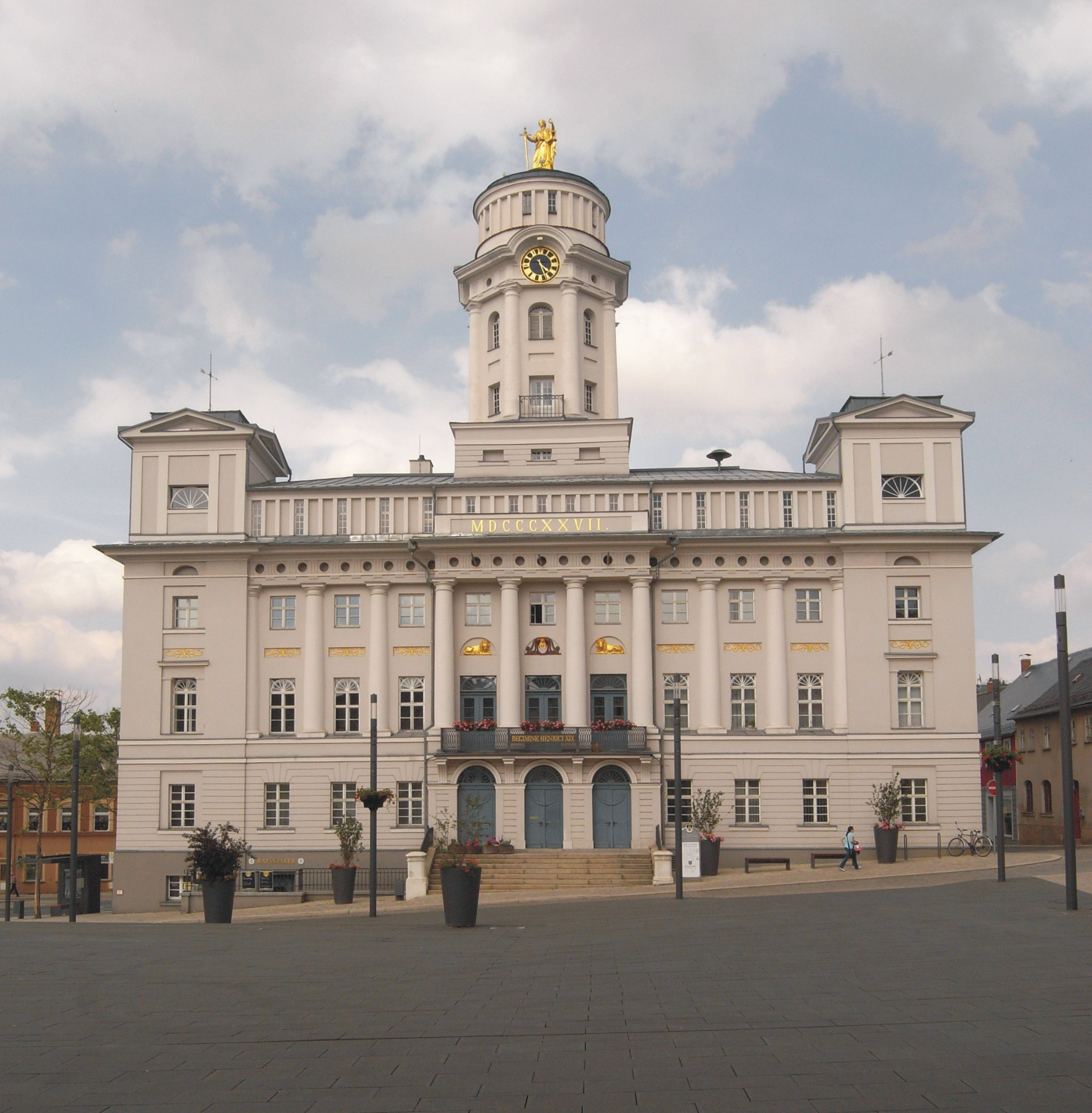 Municipal building of Zeulenroda (Thuringia, Germany)